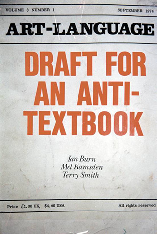 Scratched photograph of the cover of Art-Language, Vol.3 No.4, 1974, an early and very influential journal of conceptual art published in the UK and New York. Issue title (in large red/orange all-caps): Draft for an Anti-Textbook. Editors/Artists listed on cover: Ian Burn, Mel Ramsden, Terry Smith. Shot taken indoors using a Canon EOS 3000 SLR camera and colour daylight film.